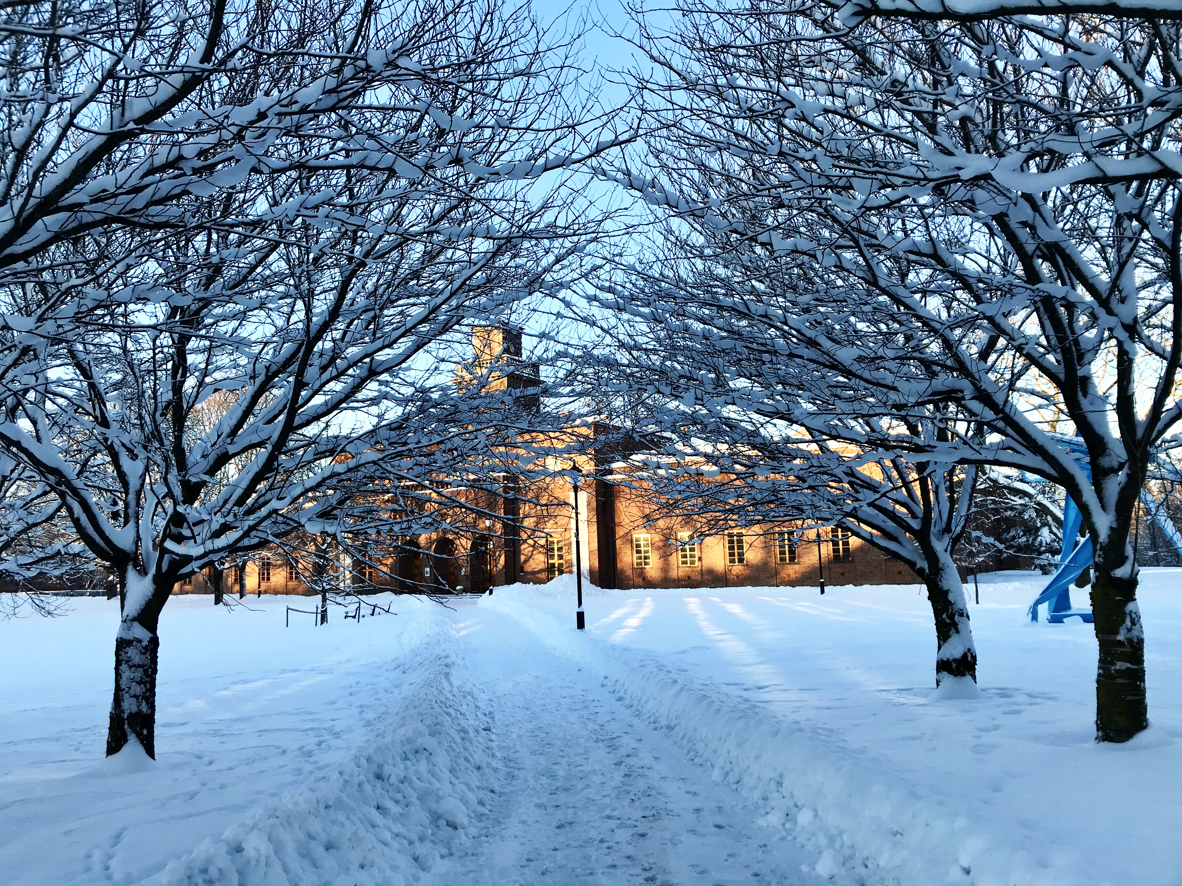 Vinter at the Vigeland Museum. Photo: Unni Irmelin Kvam / Vigeland Museum 2019